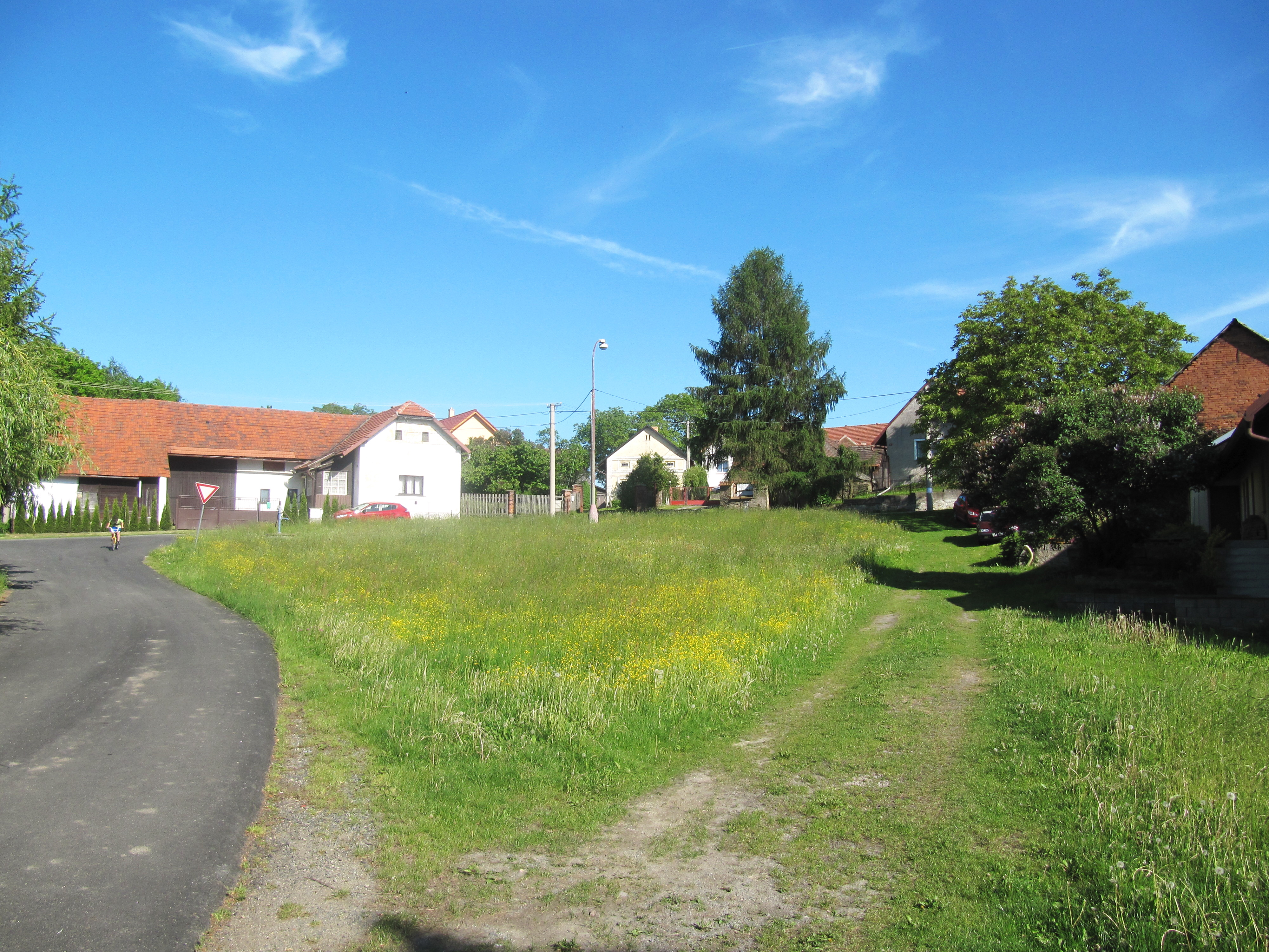 Staňkovice in Kutná Hora District, Czech Republic. Common.